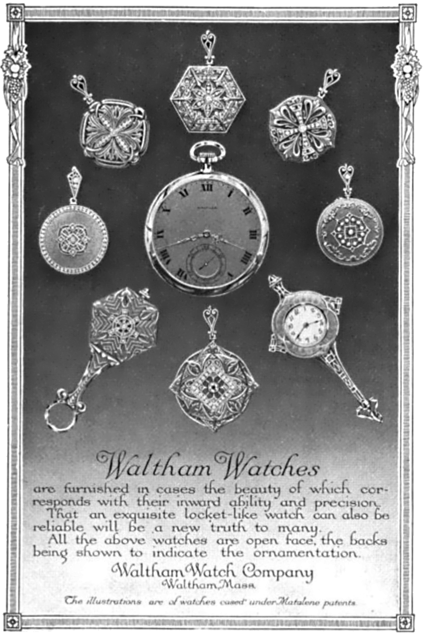 1913 magazine advertisement for Waltham Watch Company.